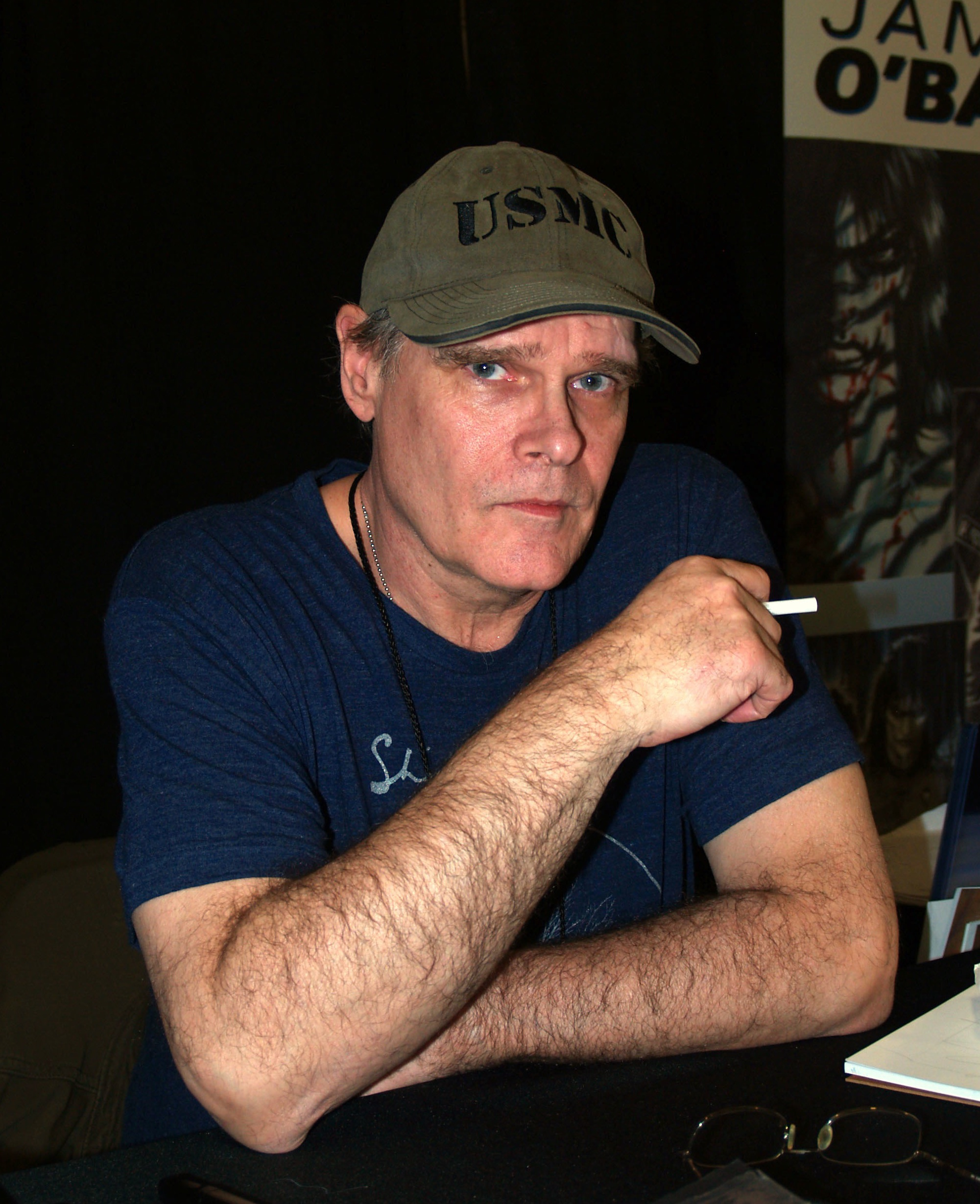 Comics creator James O'Barr at the Meadowlands Exposition Center in Secaucus, New Jersey on April 16, 2016, Day 1 of the 2016 East Coast Comicon. This photo was created by Luigi Novi. It is not in the public domain, and use of this file outside of the licensing terms is a copyright violation.